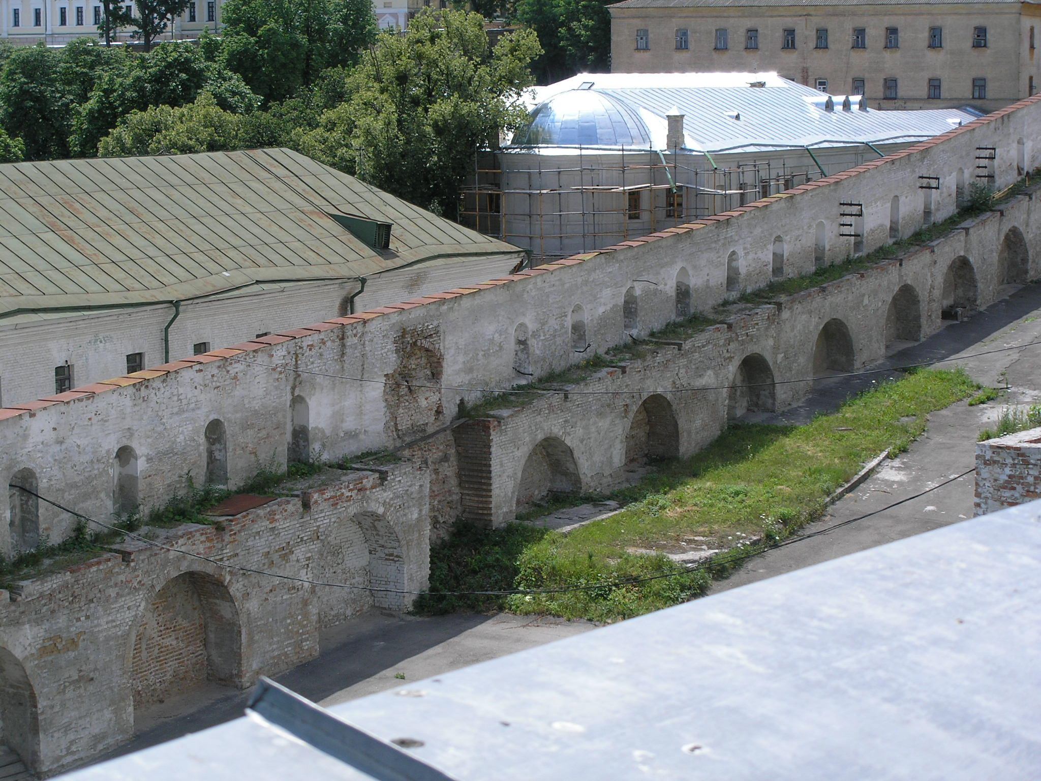 Fortification walls of the Kiev Pechersk Lavra in Kiev.